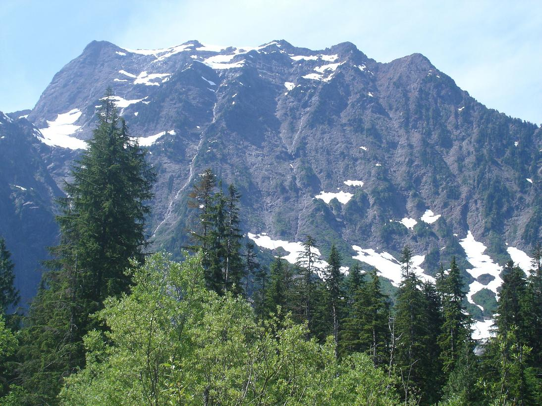 Big Four Mountain, near Granite Falls, Washington, USA